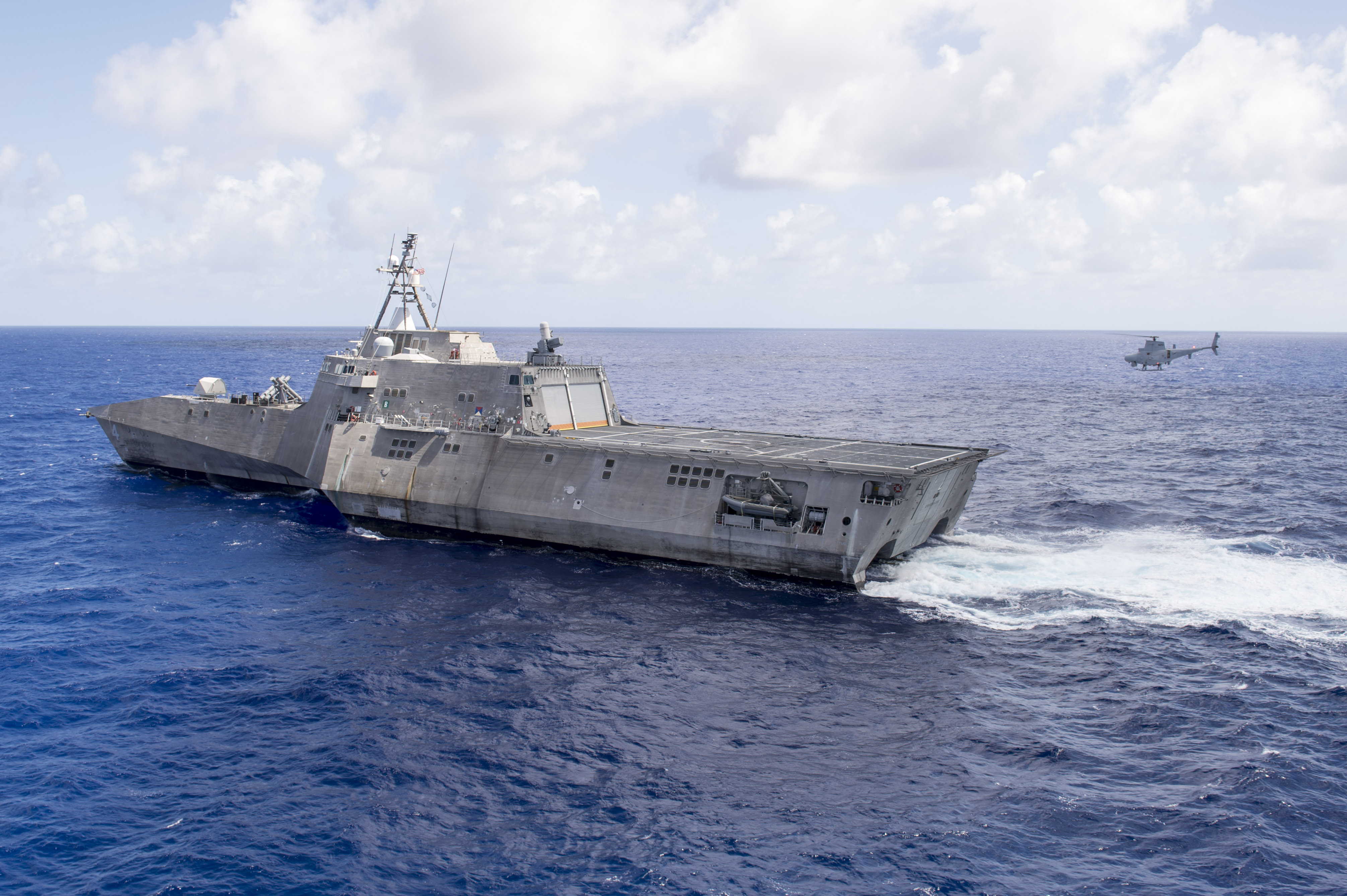 One of Helicopter Sea Combat Squadron 23 Northrop Grumman MQ-8B Fire Scouts prepares to land aboard the U.S. Navy littoral combat ship USS Coronado (LCS-4) in the Pacific Ocean.